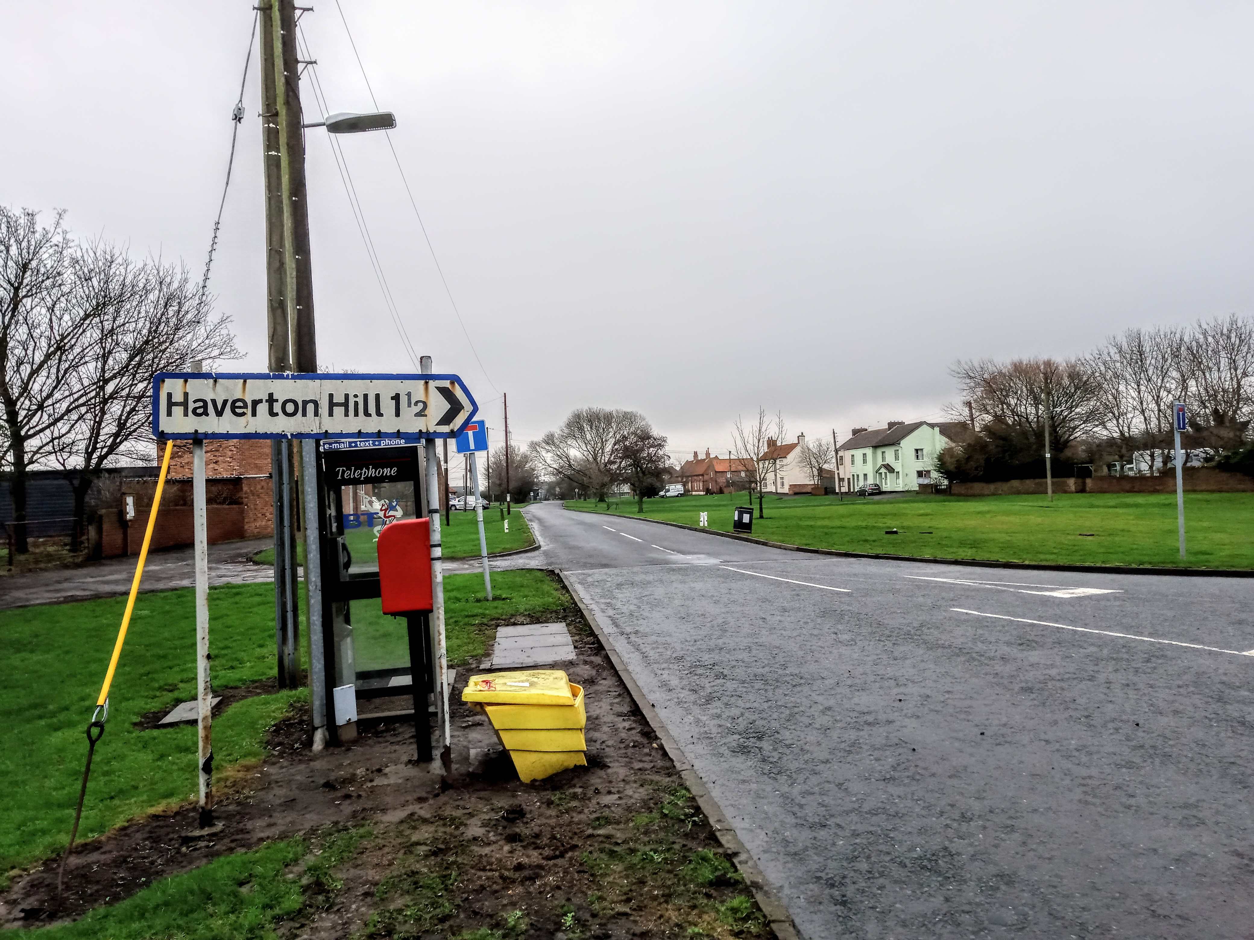 Cowpen Bewley